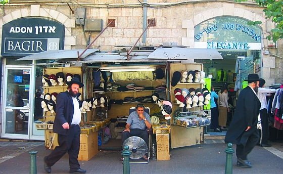 Photo by Gilabrand. This is own work. Street scene, Mea She'arim, Jerusalem.